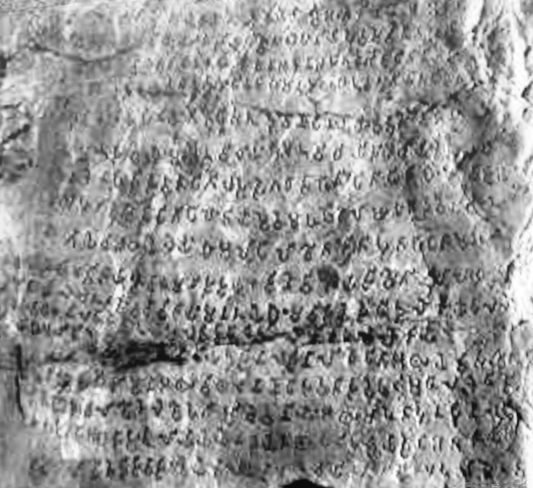 Khalsi Edict 13